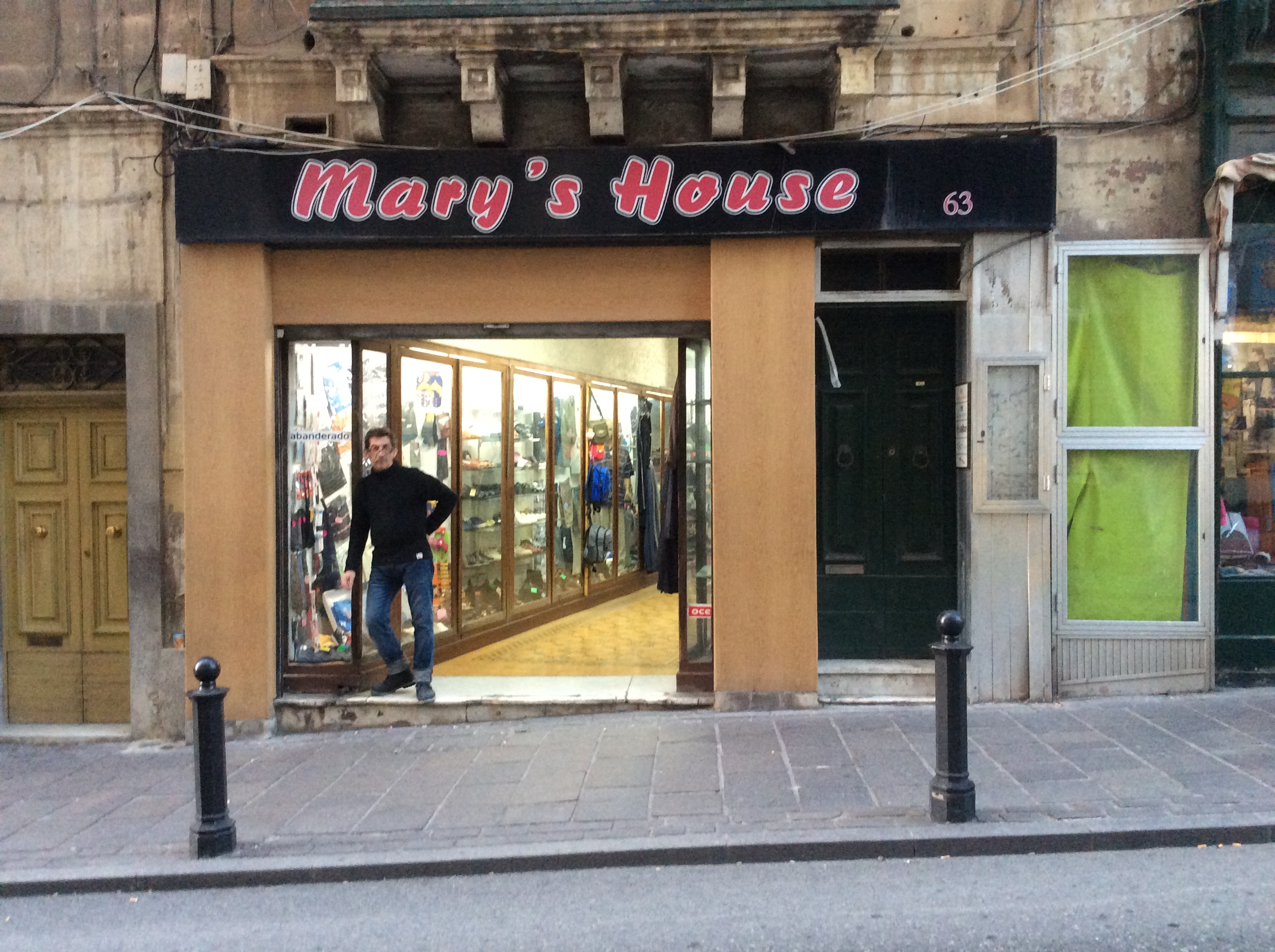 Mary's House Sliema Malta - shop involves in the Lockerbie Bombing - with its current owner